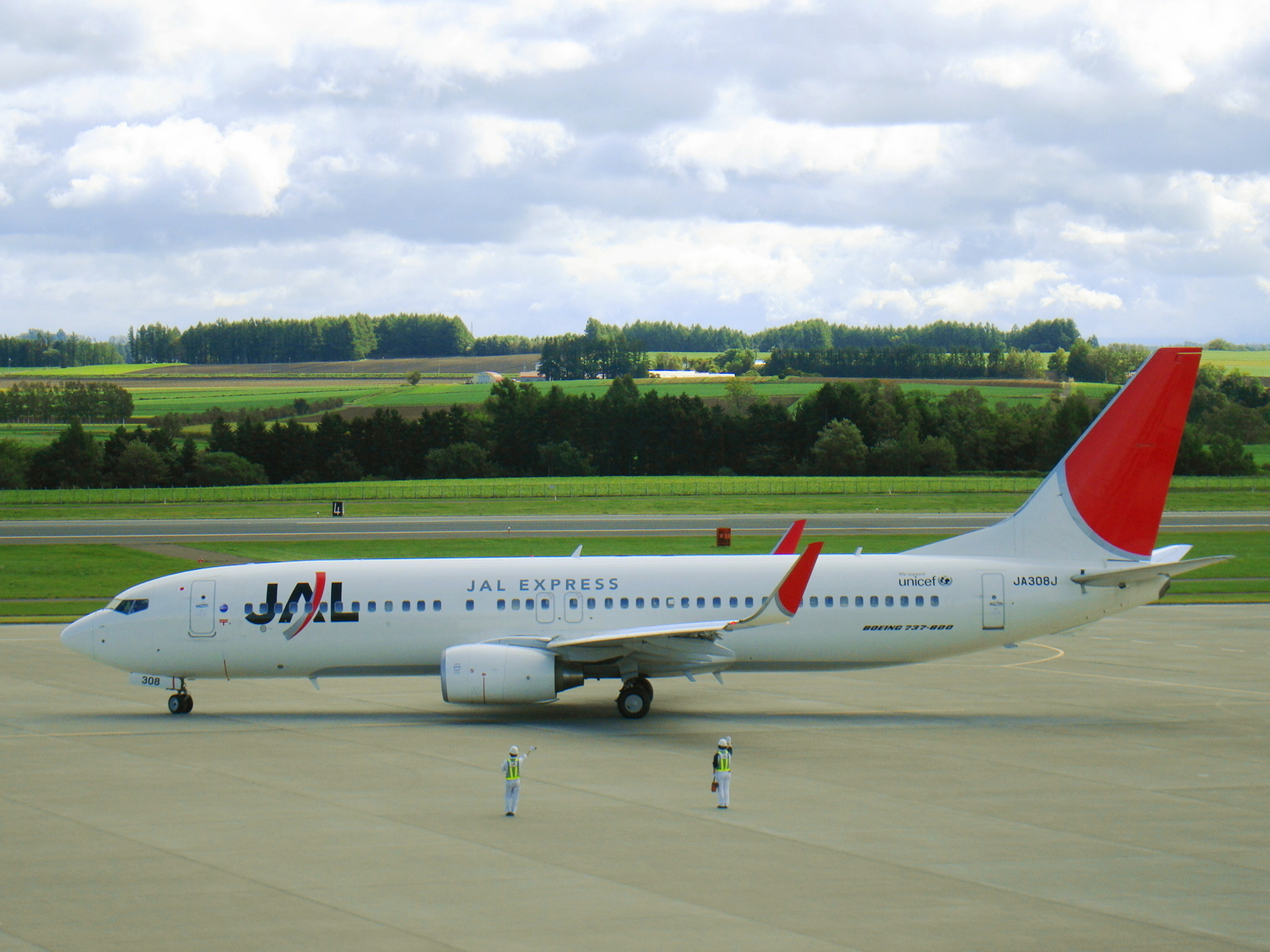 Japan Airlines(JAL Express) Boeing 737-800 JA308J